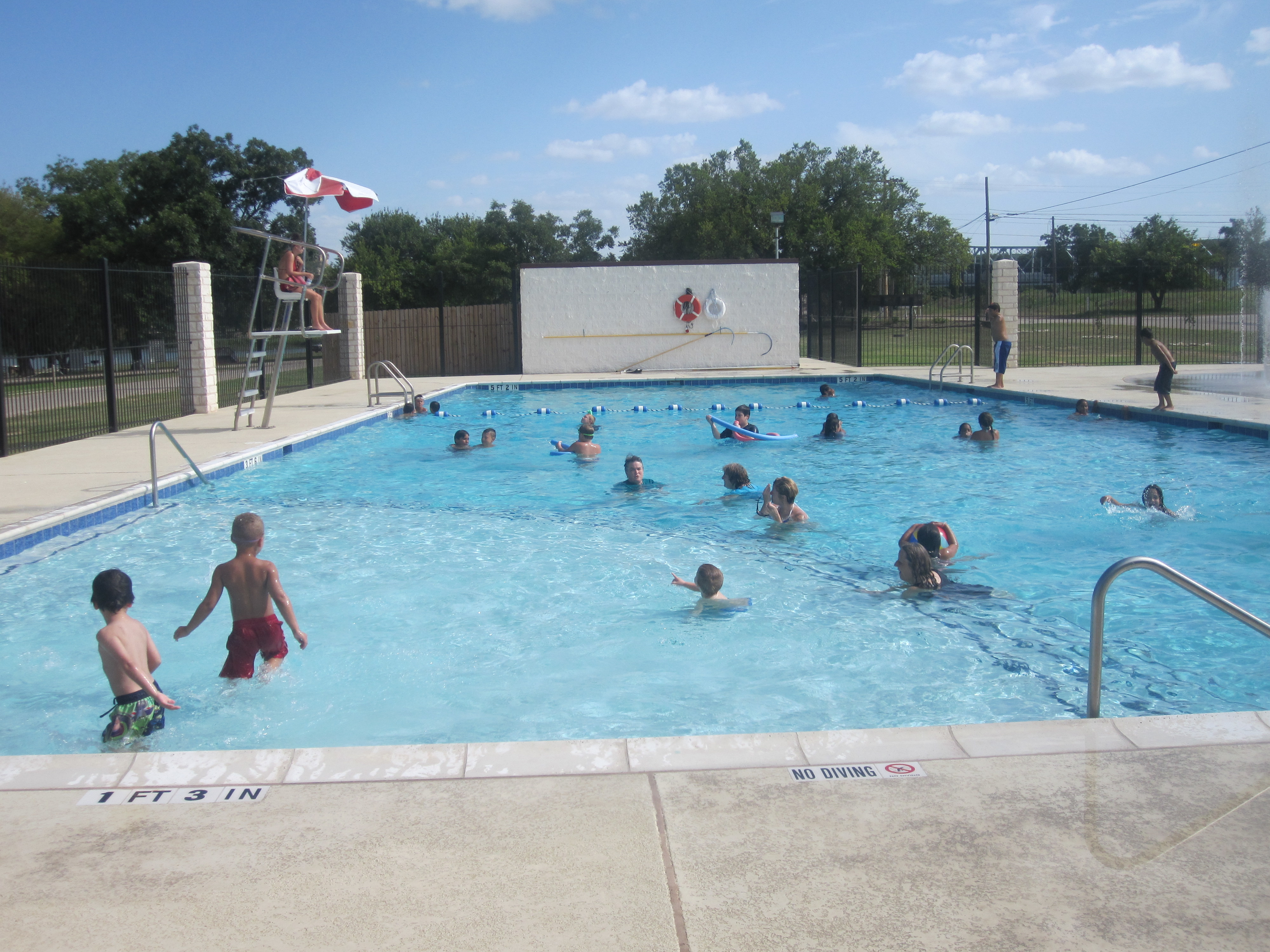 I took photo with Canon camera in Junction, TX.